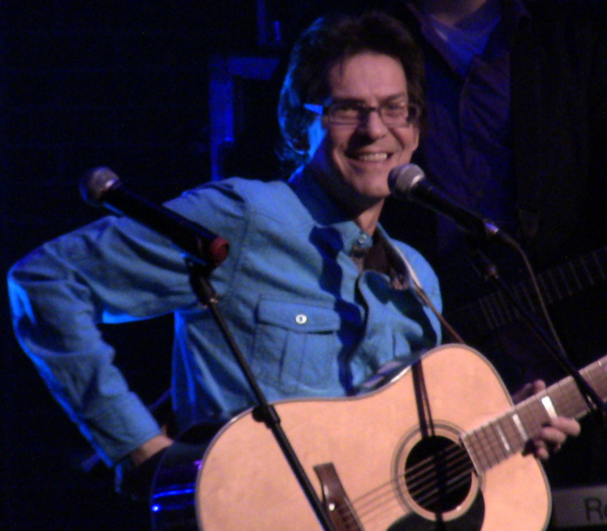 Paul Demers at the 40th edition of french music festival La Nuit sur l'étang, in Sudbury, March 23rd, 2013.